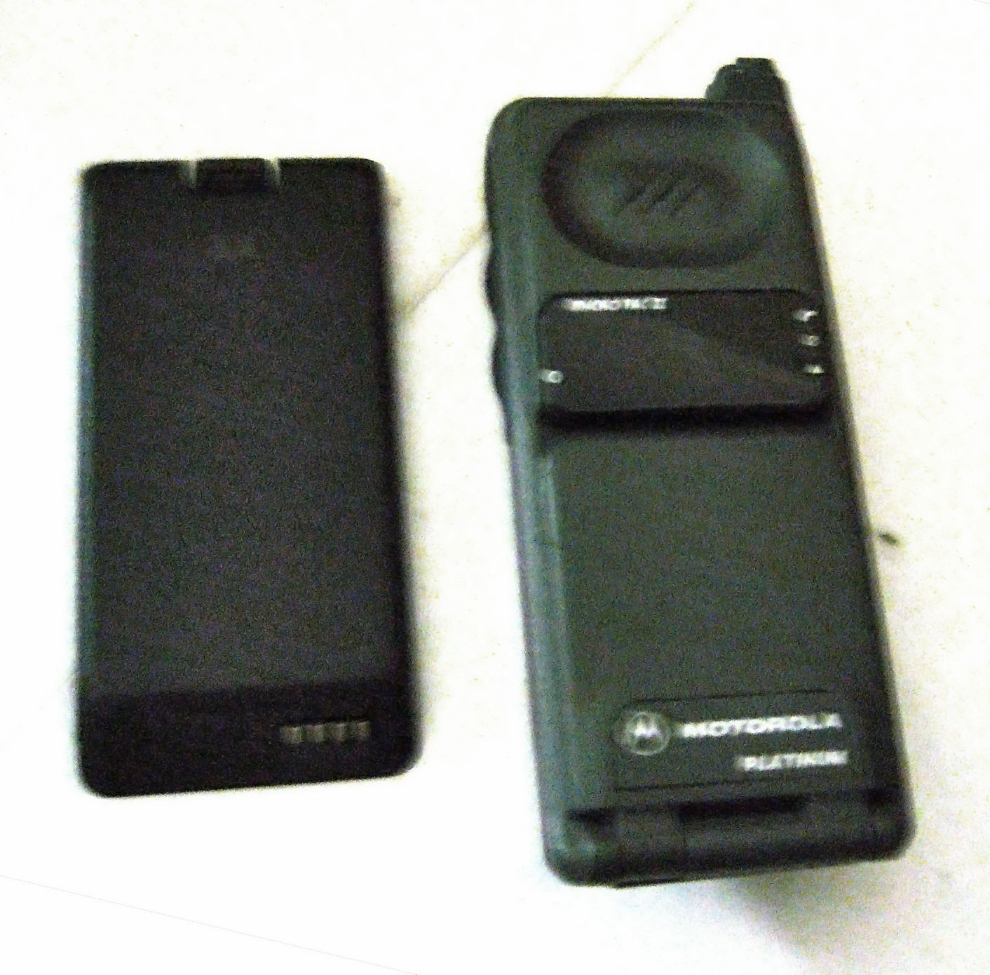 Motorola MicroTAC II Platinum fitted with the 6 volt Nickel Metal-Hydride XT battery. Next to it is a 6-volt Nickel Cadmium Slim battery which belongs to my MicroTAC International 8700 phone. The photo was made by myself and is part of my collection.